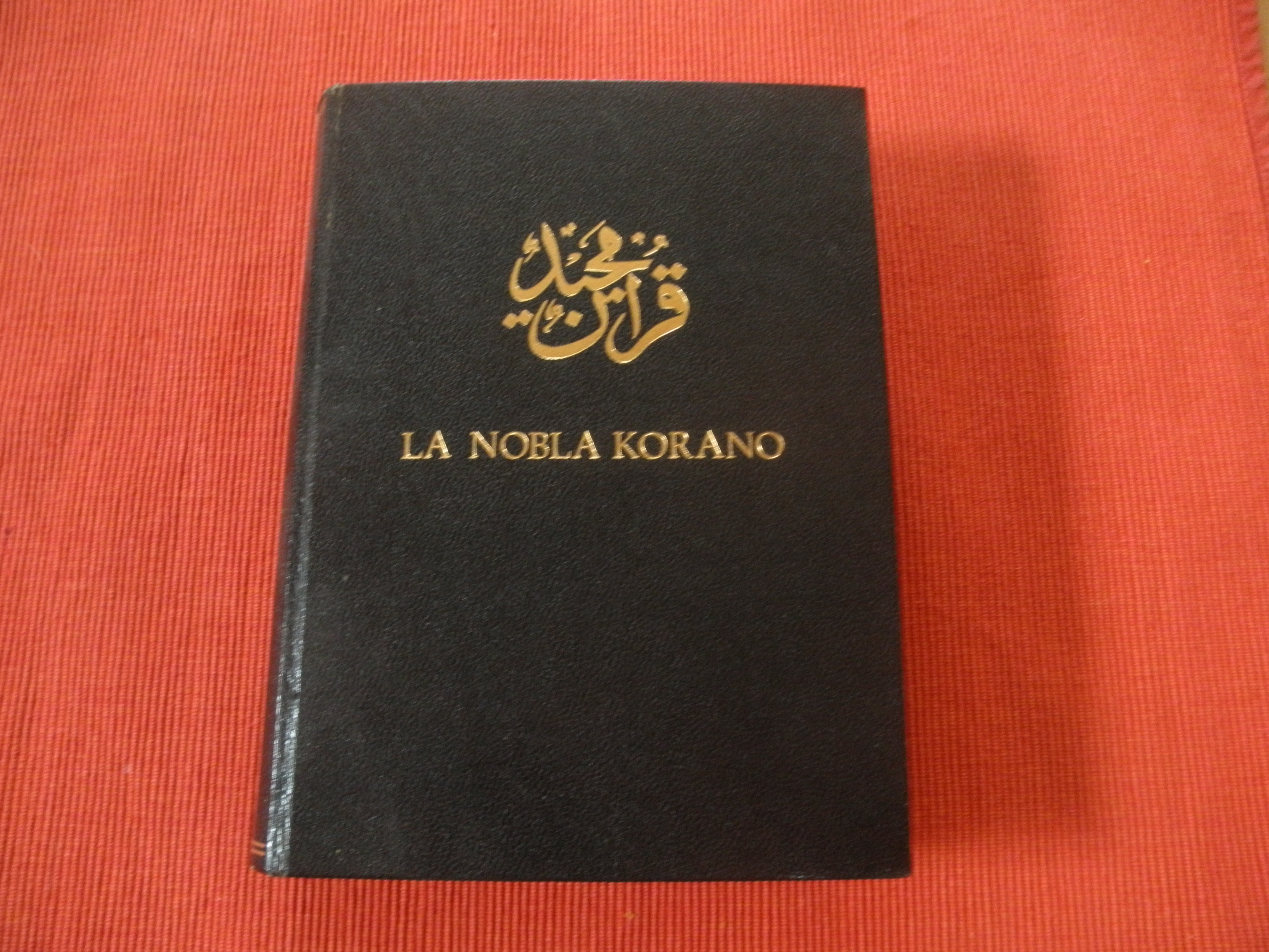 The noble Qur'an in Esperanto, edition of 1969, front cover